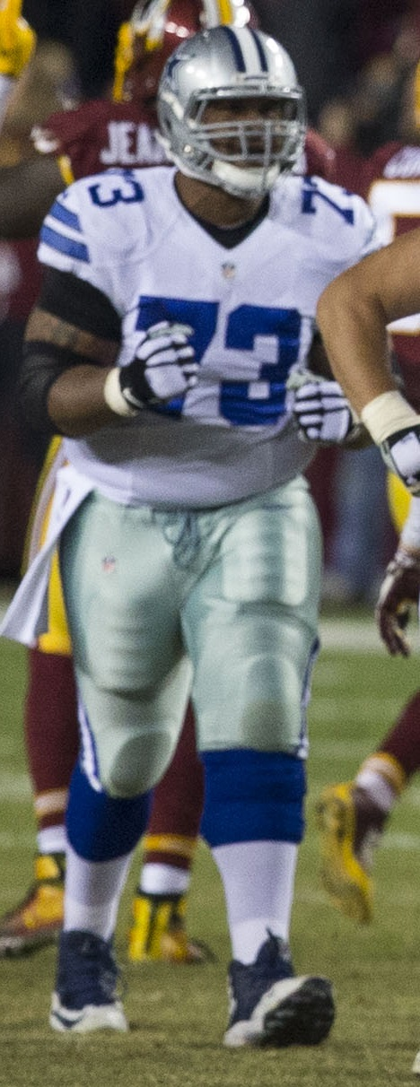 Cowboys at Redskins 12/7/15